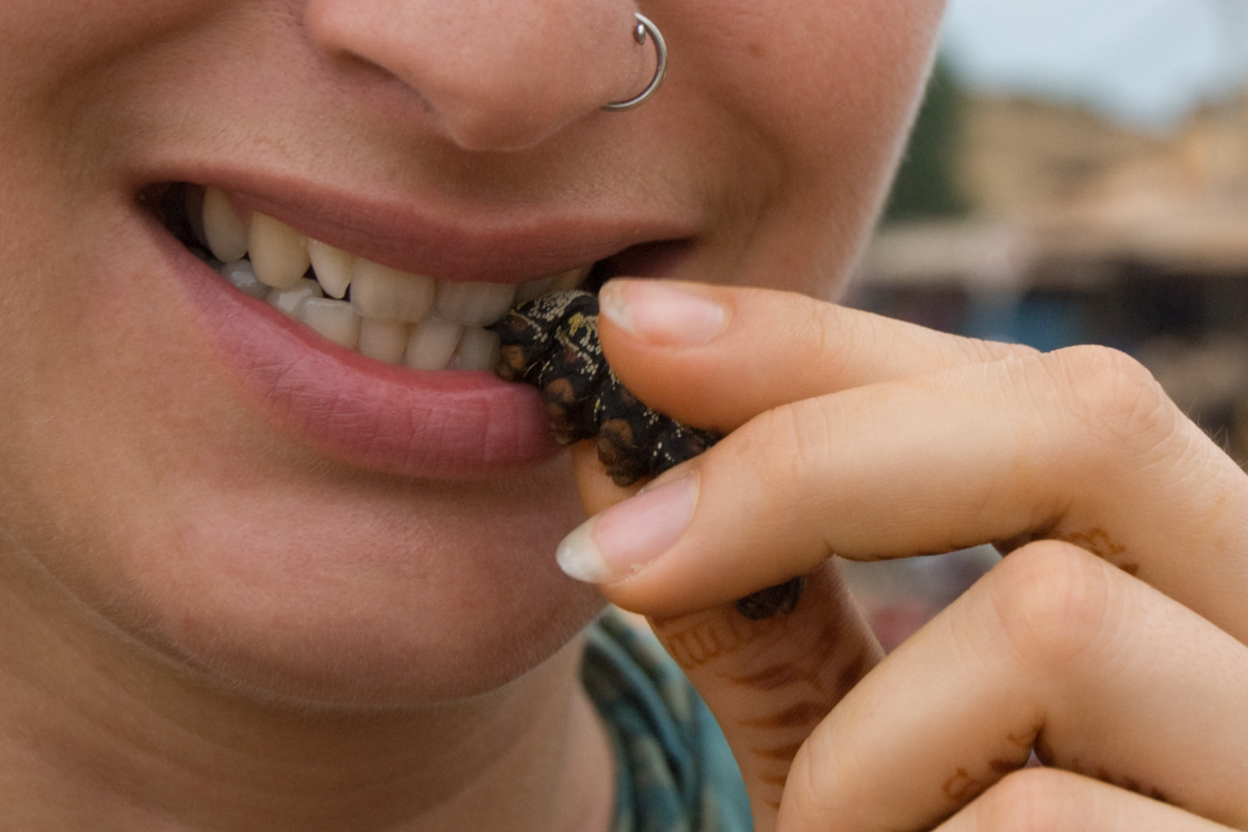 Snacking on a fresh (but dead) caterpillar of Cirina butyrospermi (Saturniidae, Lepidoptera), locally called 'chitoumou' or 'chenille de karité (Banfora (Comoé Province, Cascades Region), Burkina Faso, September 2015.